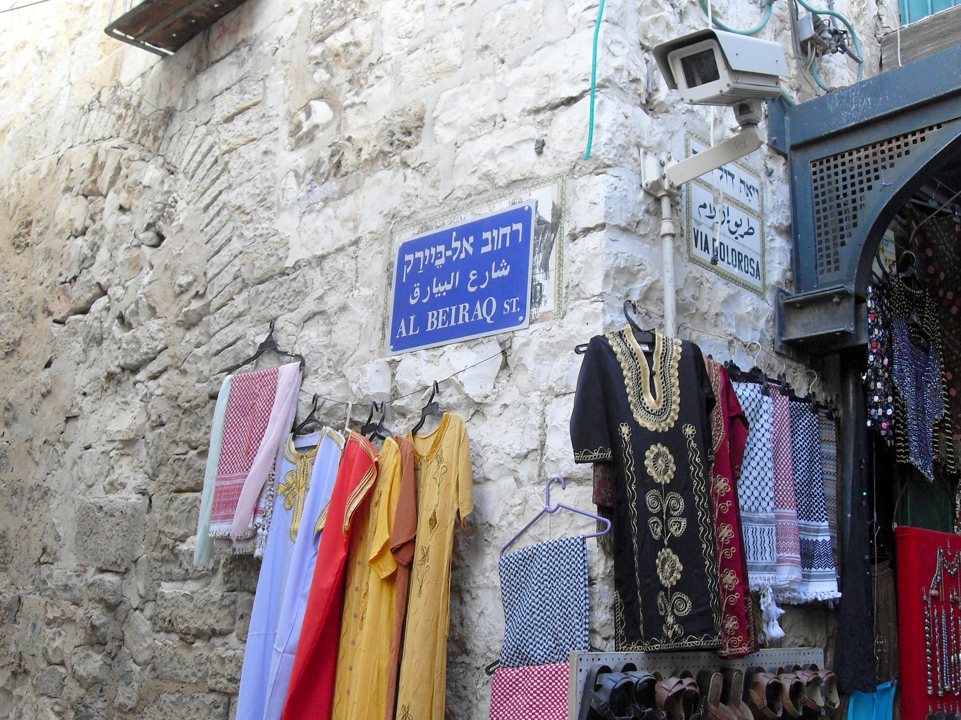 Old Jerusalem, Al Beiraq street, (old and new) sign and security camera